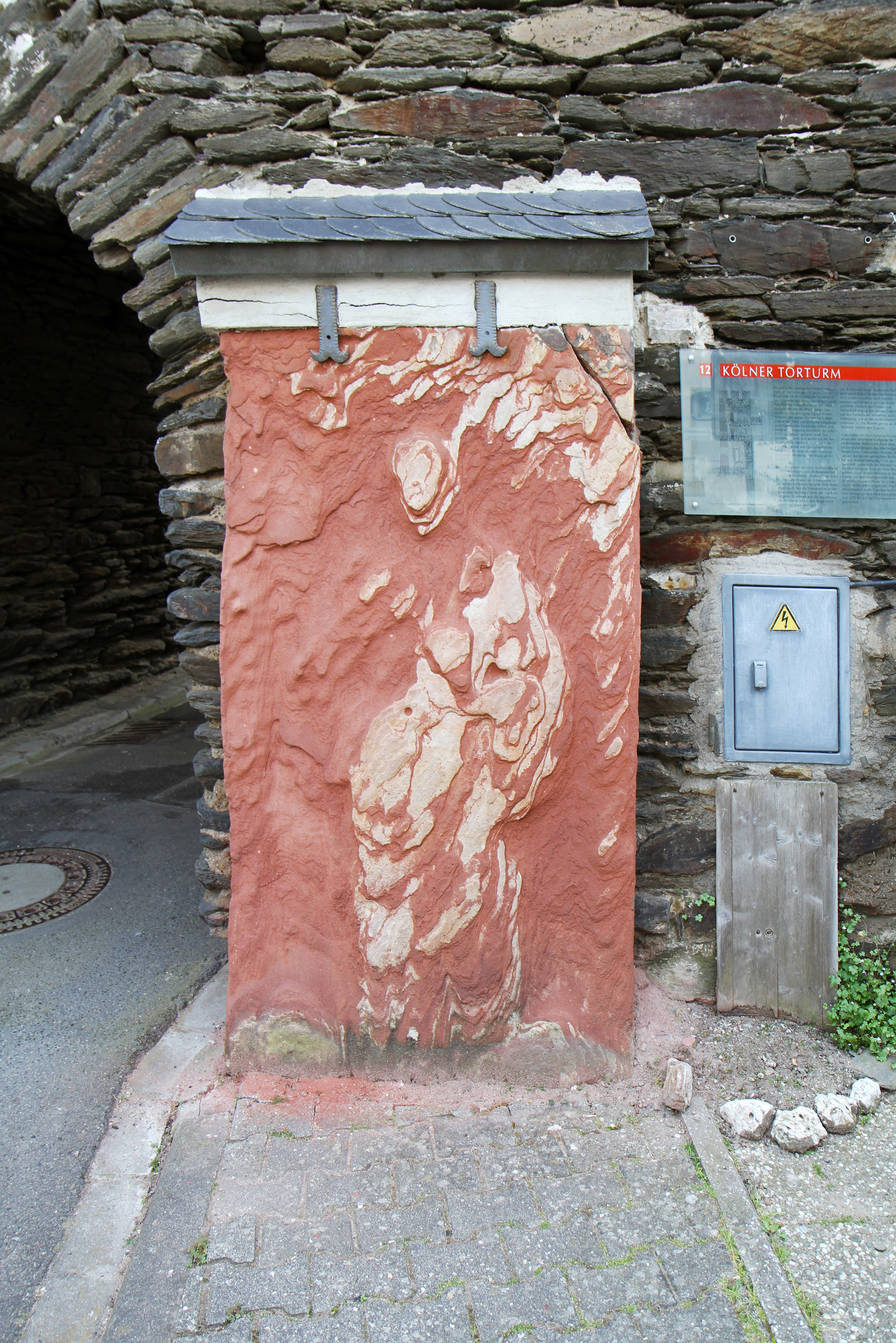 The photo shows a tomb slab at thr “Kölner Gate Tower” of the Medieval defensive wall of Oberwesel, Rhine, Germany..